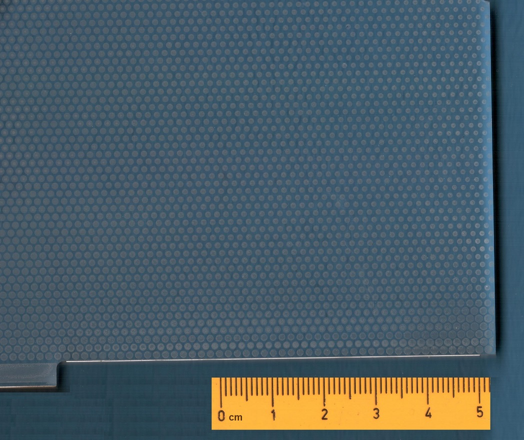 Light guide and light spreader dots on an organic glass plate from the backlight of a TFT display. The dot´s diameter depends on the position behind the screen and controls the amount of light, which leaves the light guide plate at this point. In this war one get a homogenuous light density behind the screen area. The CCFL was right of the plate.